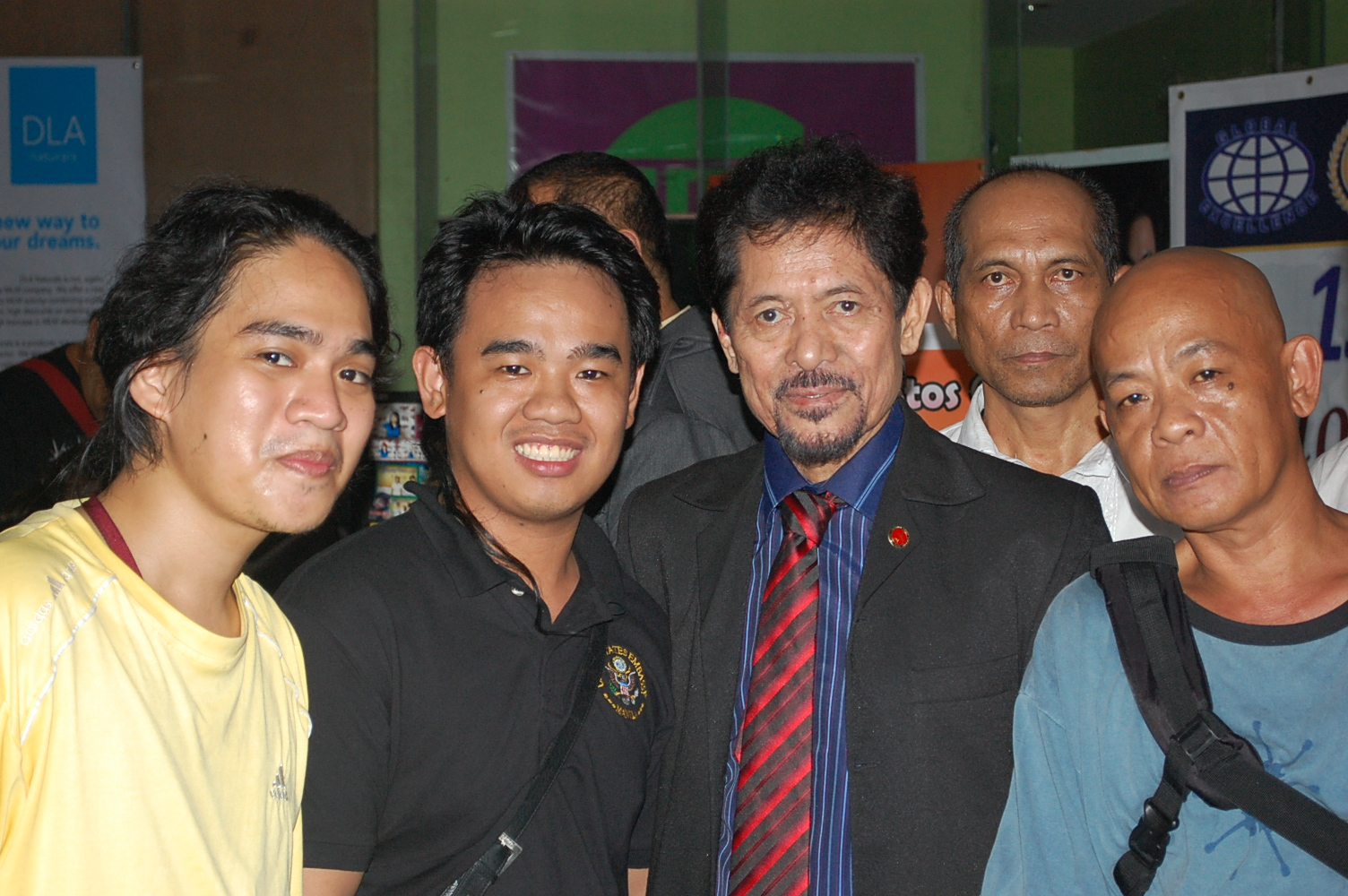 Latest/close-up picture of Nur Misuari [1] (with his friends including famous photographer Robert Balanay (right-beside Nur, wearing blue shirt) taken by me using Nikon D40 on August 10, 2011.